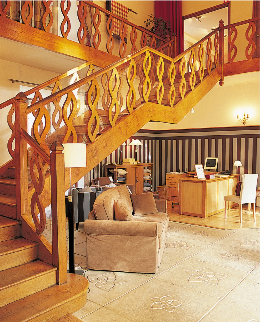 Le magasin Toiles de Mayenne de Fontaine-Daniel